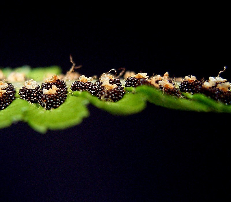 Dryopteris filix-mas